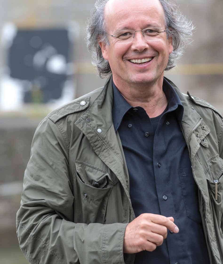 Portrait of Winfried Muthesius